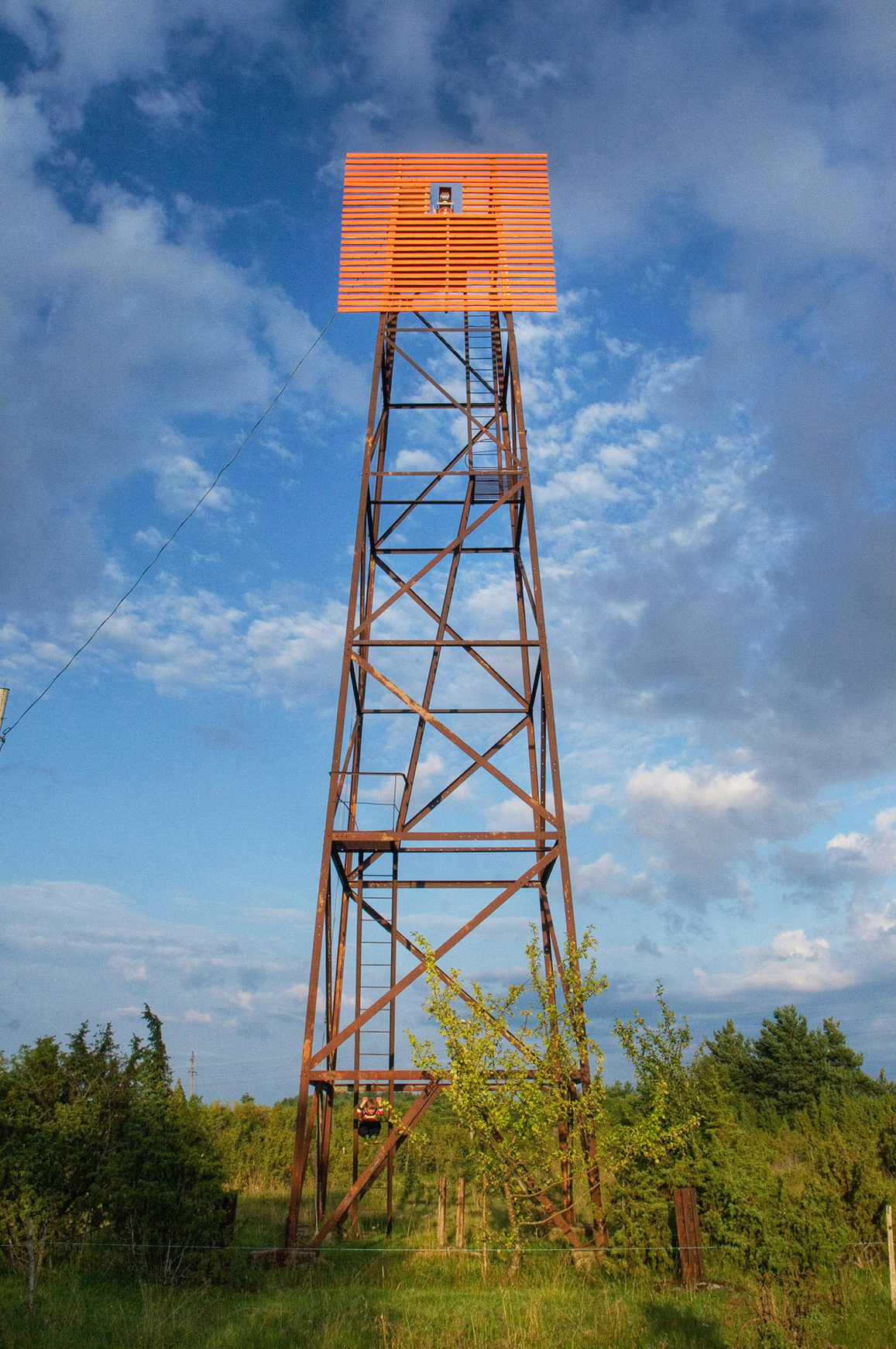 Emmaste rear light beacon